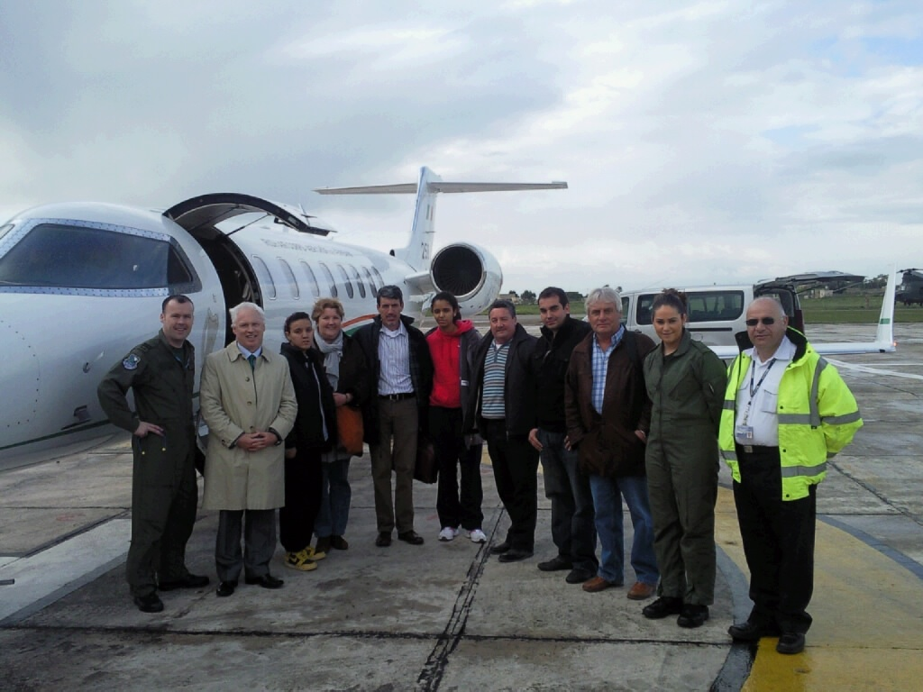 Irish Citzens who were evacuated from Libya with the Air Corps crew about to leave Malta for Dublin on the Air Corps Learjet